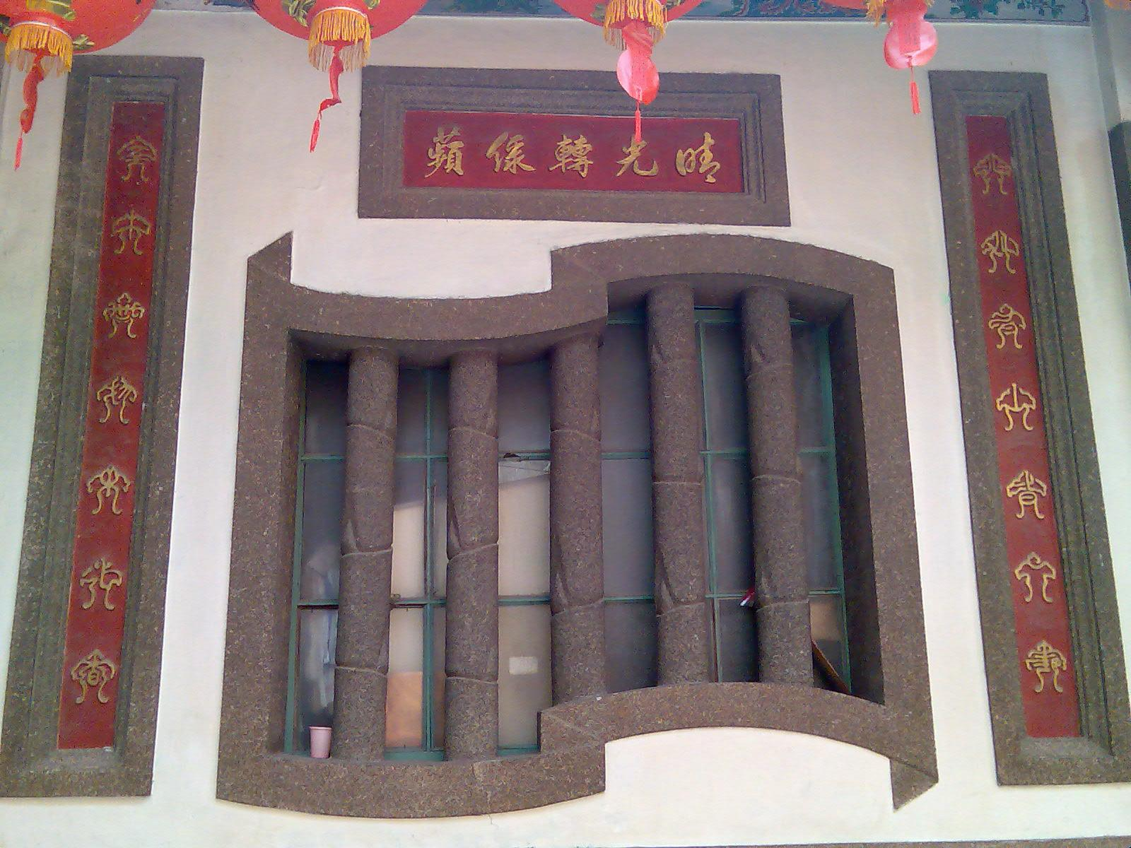 strange-words in Nanyao Temple